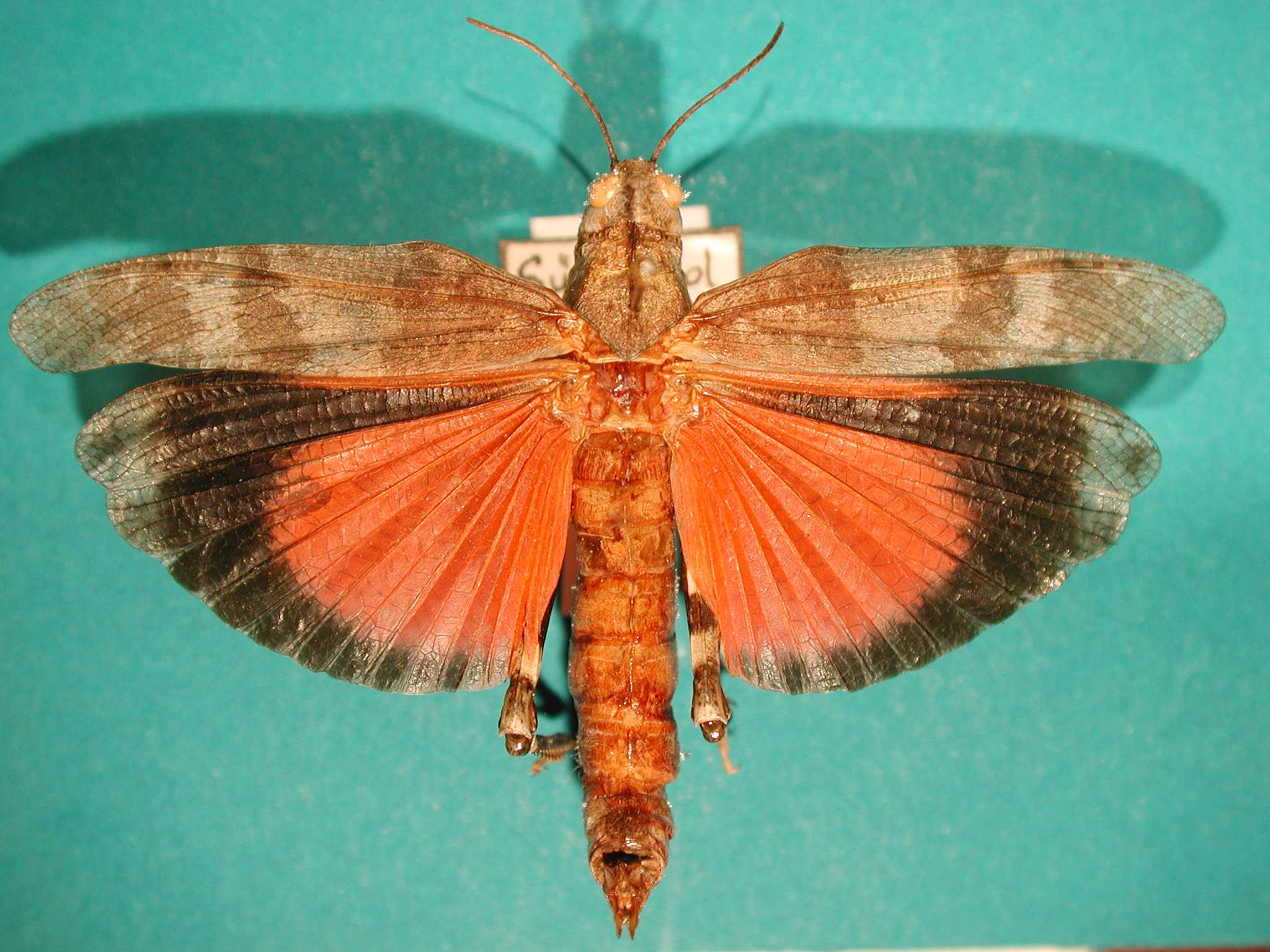 Oedipoda germanica photographed in the Zoologische Staatssammlung München.